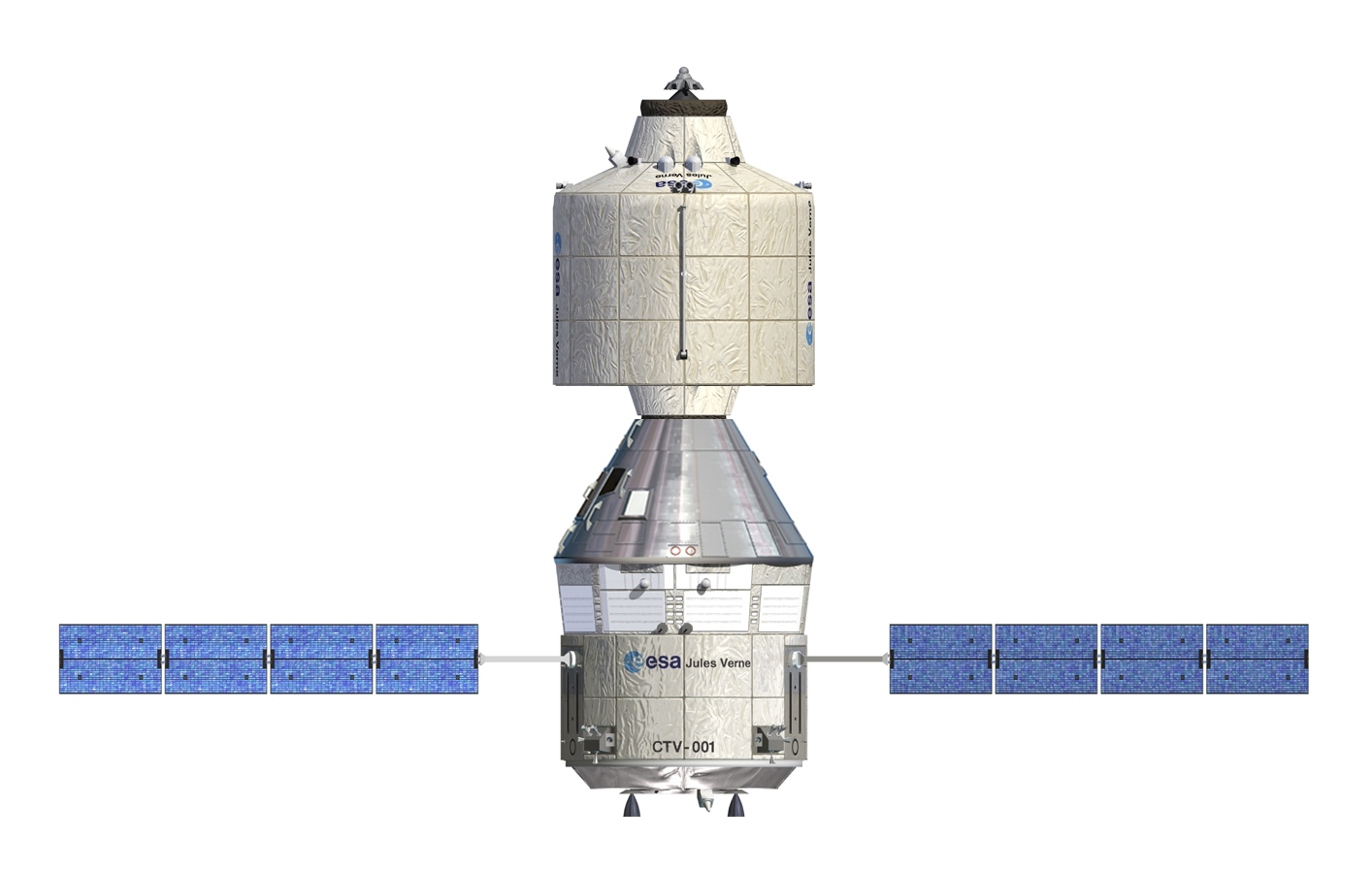 Possible design for the CSTS EuroSouyuz spacecraft